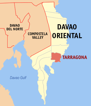 Map of the Davao Oriental showing the location of Tarragona